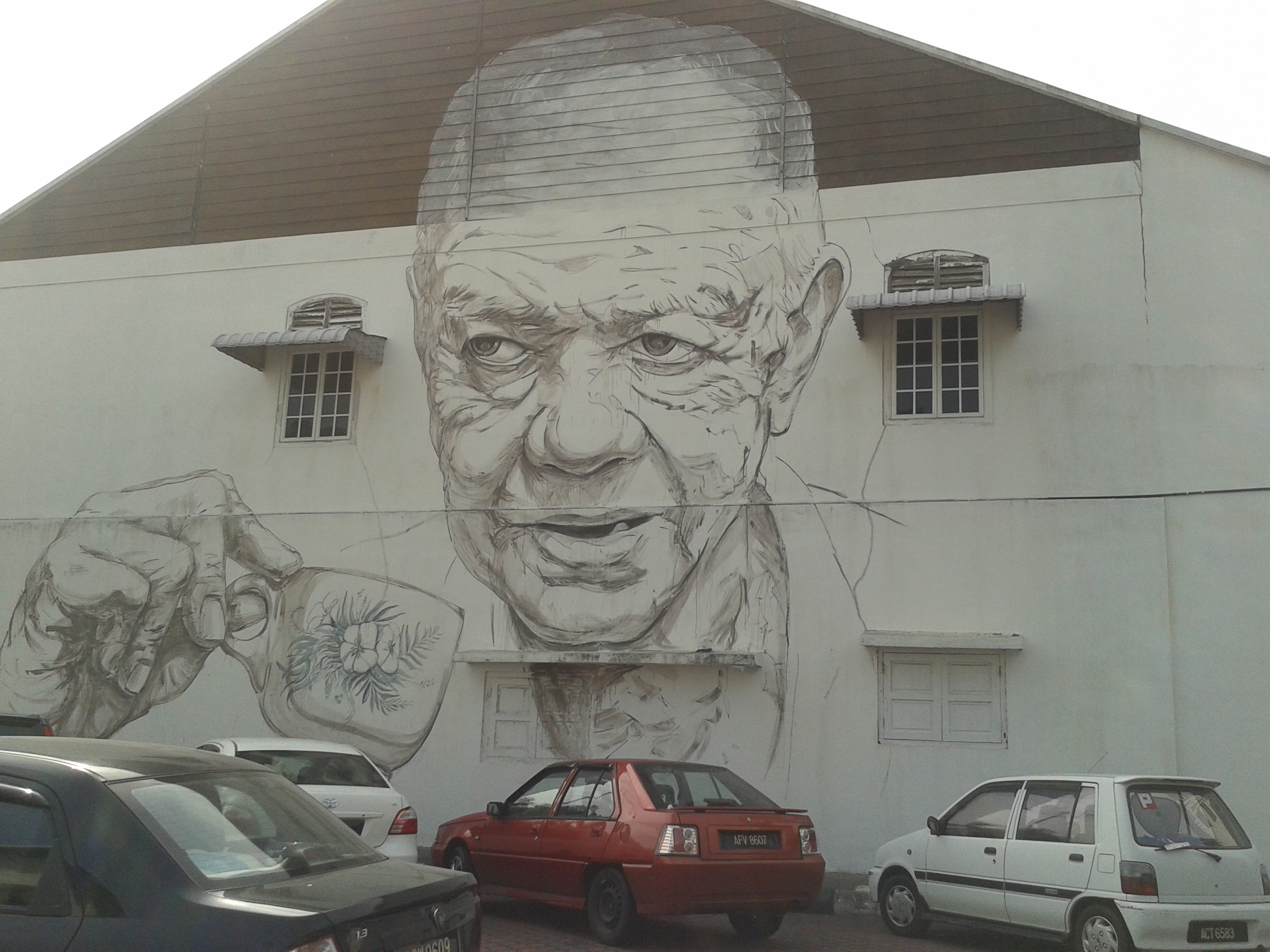 One of the 7 wall art murals drawn by Ernest Zacharevic in Ipoh old town.